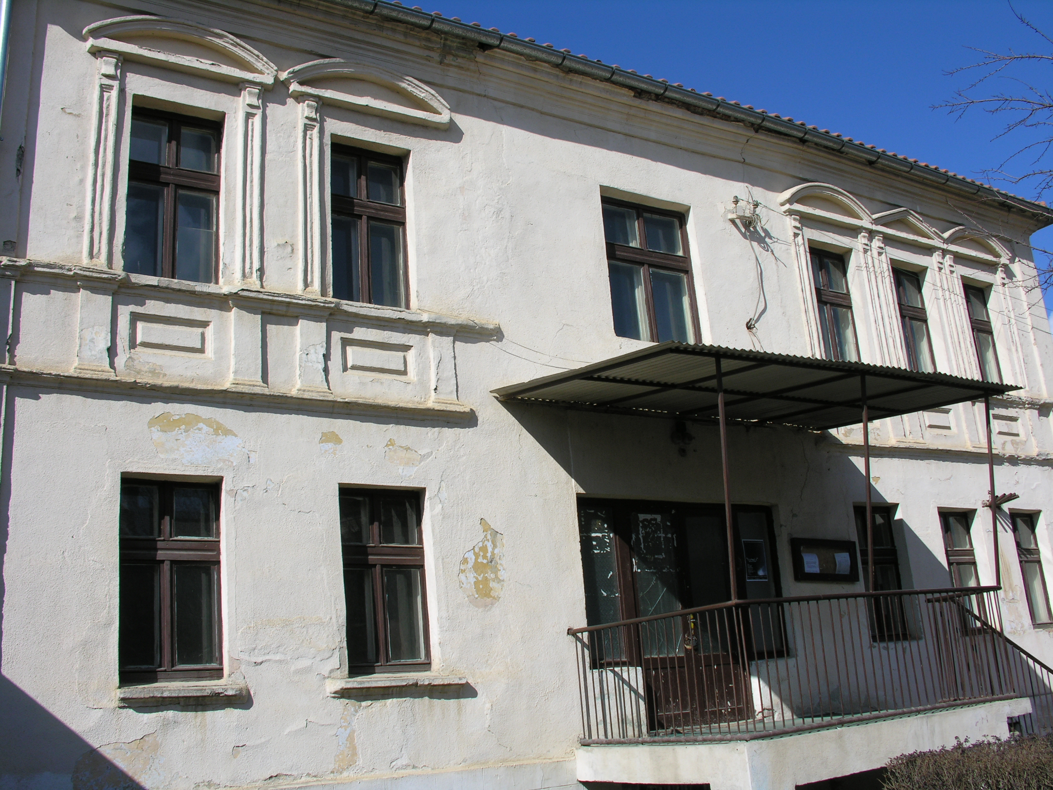 Shkolla e Muzikes ne Gjilan